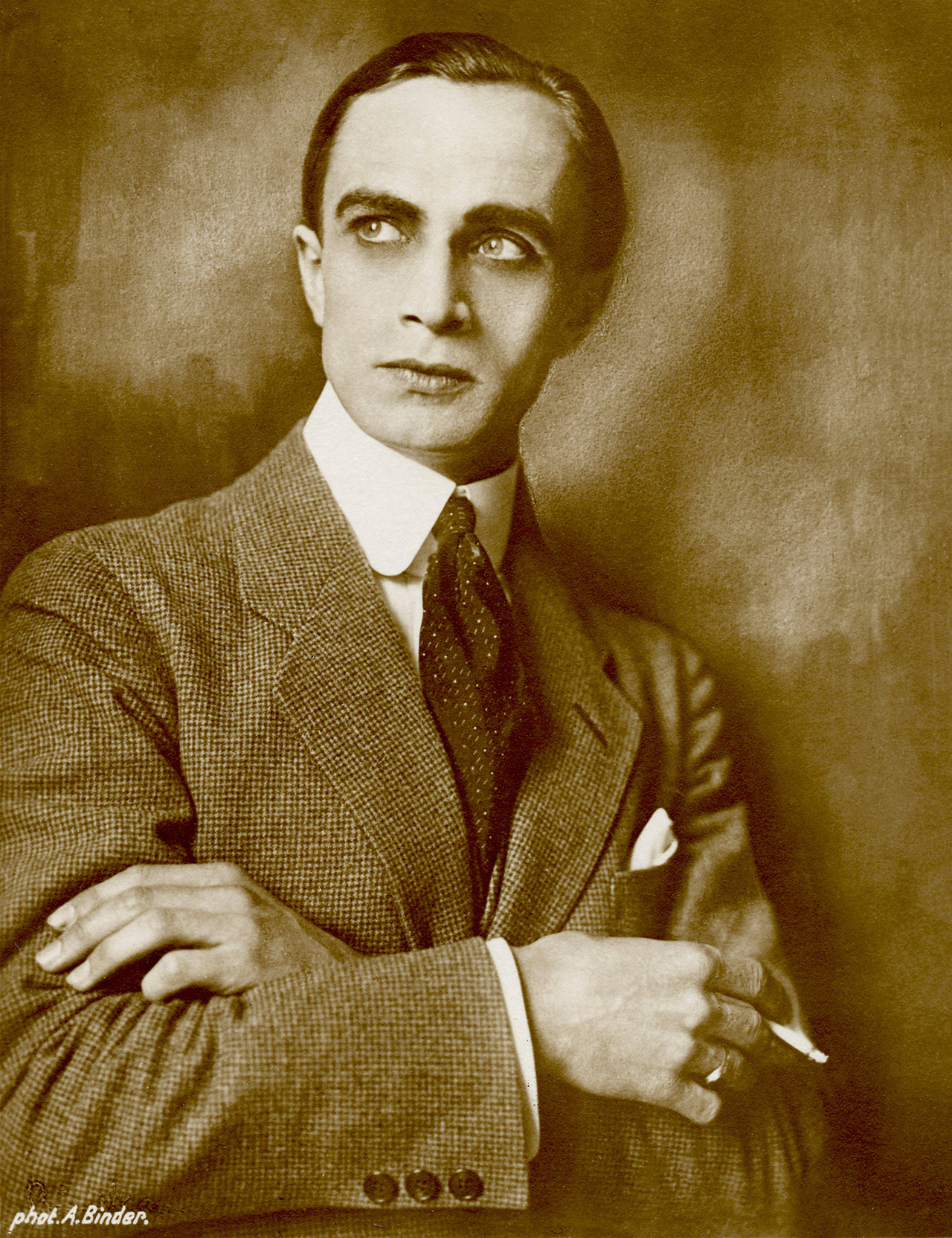 Portrait of German actor Conrad Veidt (1893–1943) by Alexander Binder, Berlin.